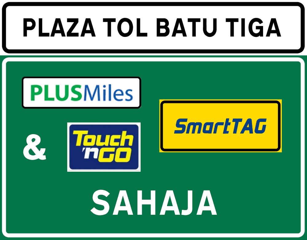 These toll plazas accepts Electronic Toll Collections only